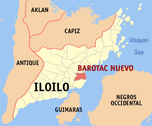 Map of Iloilo showing the location of Barotac Nuevo